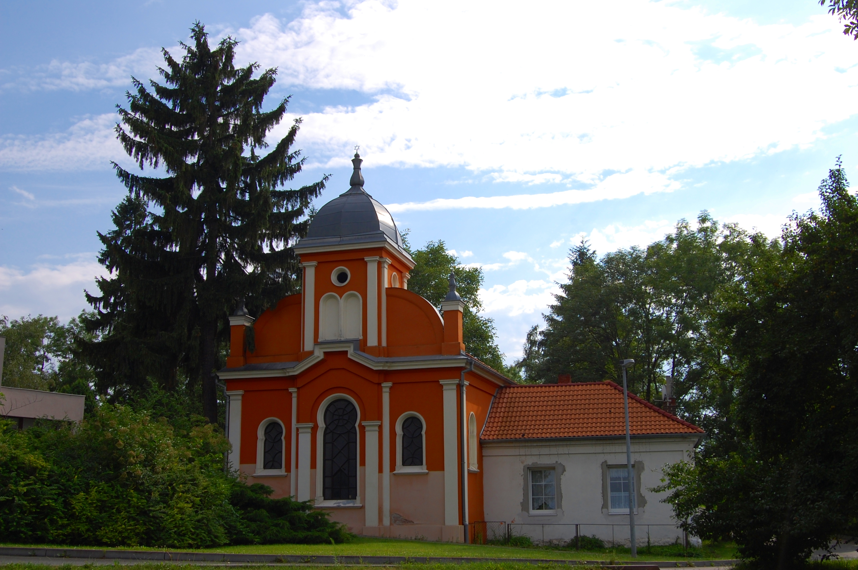 Ceremonial hall at Jewish cemetery in Louny (front view)